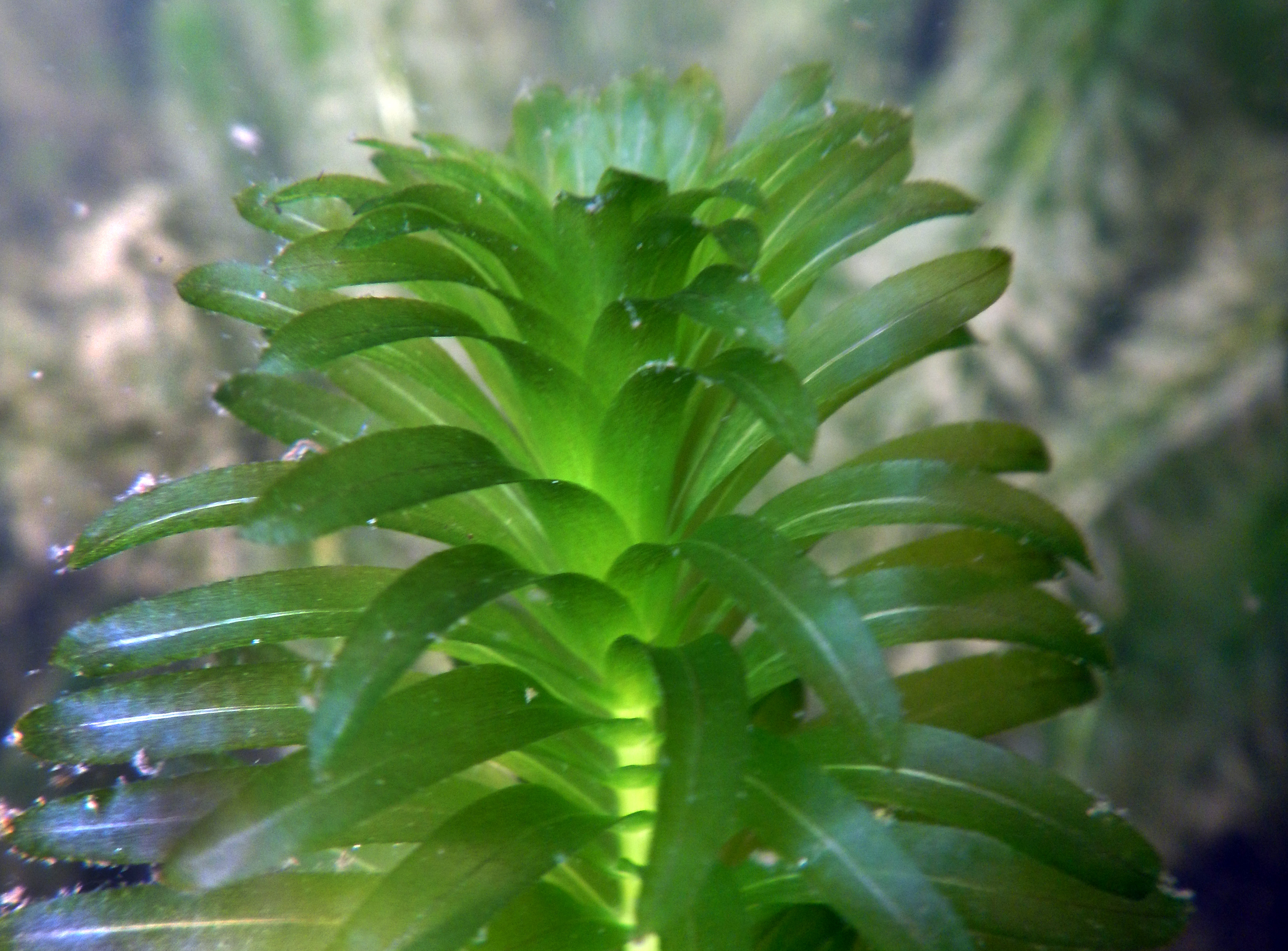 biological invasion of the fishing pond of Saint-Nolf in Morbihan (near Condat stream, near a football field and near a railroad (access of the pont by the Departmental road 135) By far, this plant evokes waterweed Elodea, but it's Egeria densa.